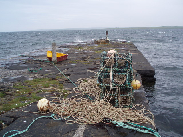 High tide, jetty, Tankerness. High tide on a windy day at jetty near Hall of Tankerness.